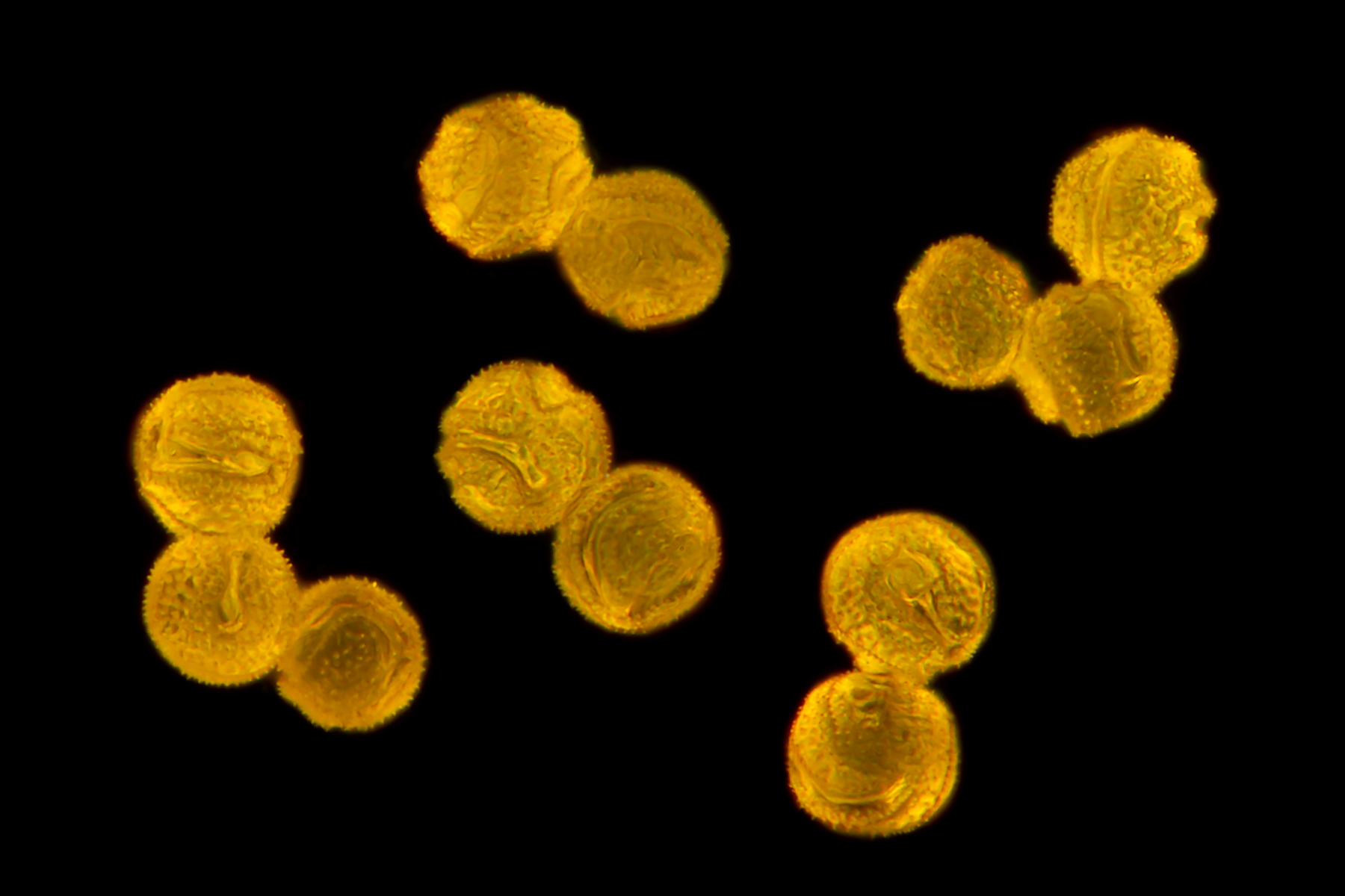 Pollen grains of the Dandelion (Taraxacum) flower. Approx 45 microns across. Photograph taken on an Olympus BH2 in reflected polarised light.